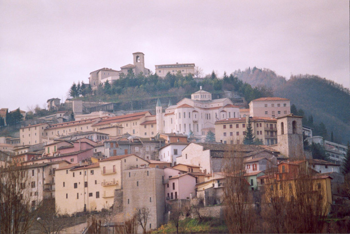 View of Cascia (Perugia - Italy)